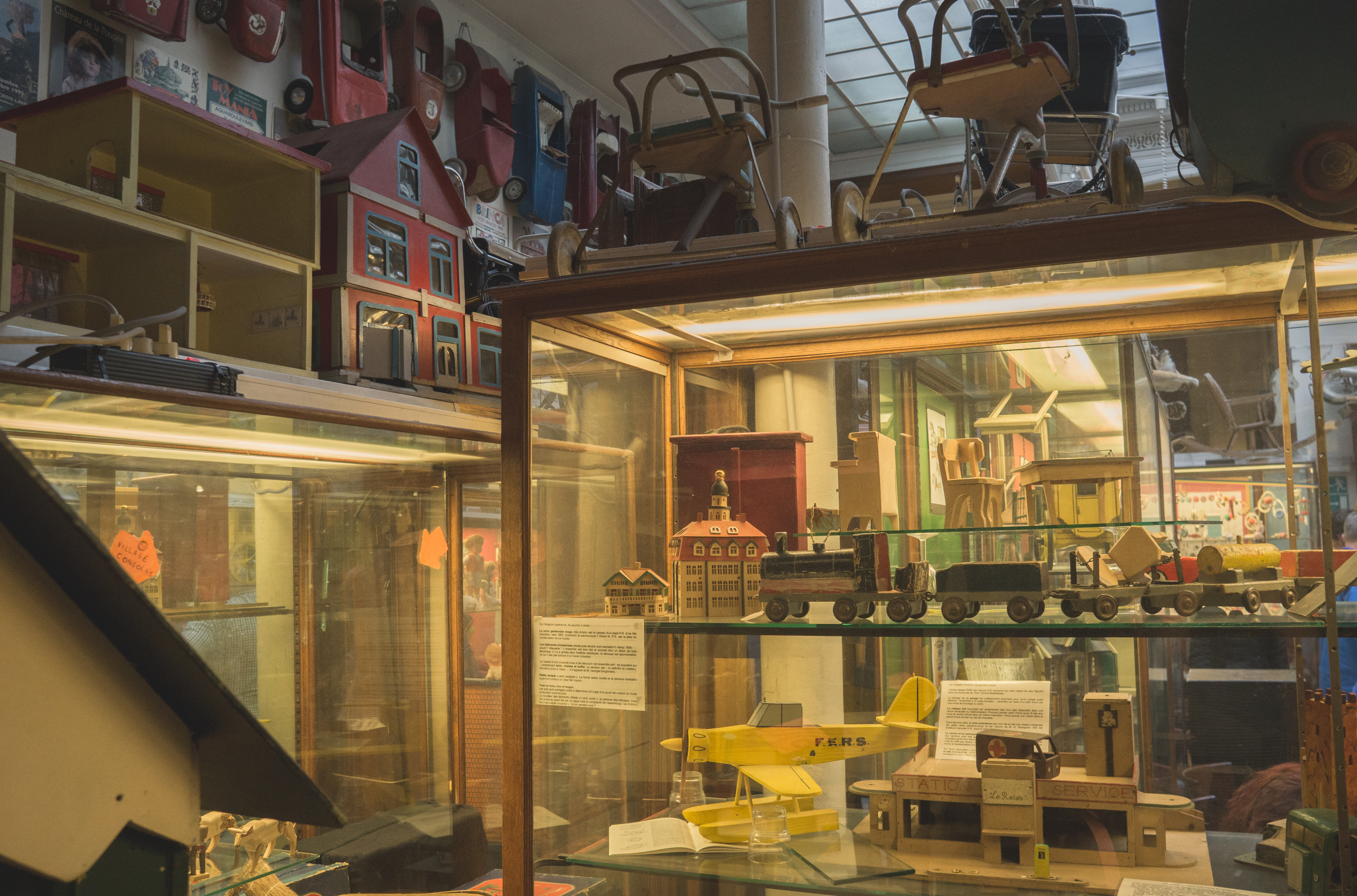 Display cases of the Musée du Jouet (Toys Museum) in Brussels This photo of movable heritage has been taken in the Brussels Capital Region